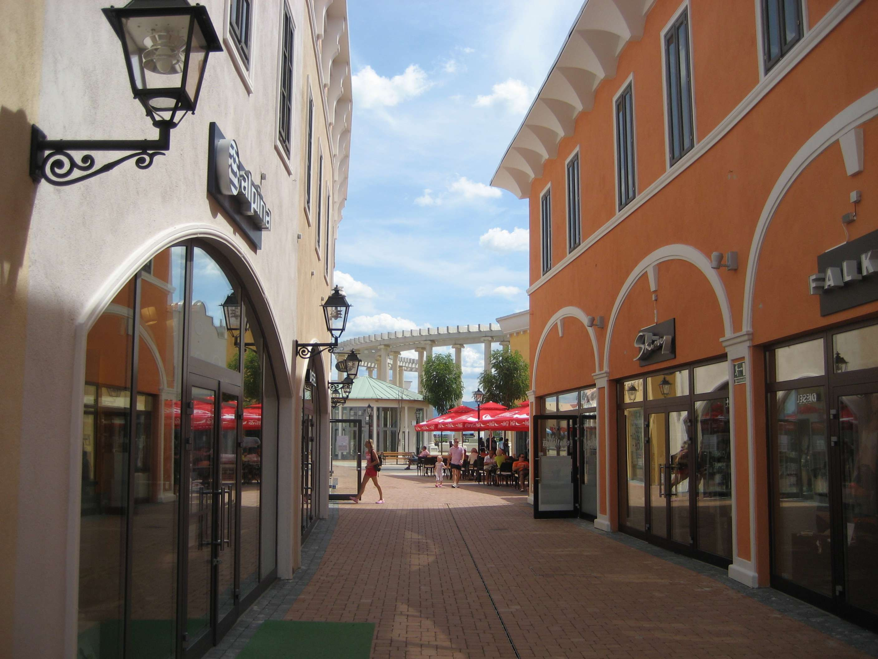 Outlet Center Roses, Croatia